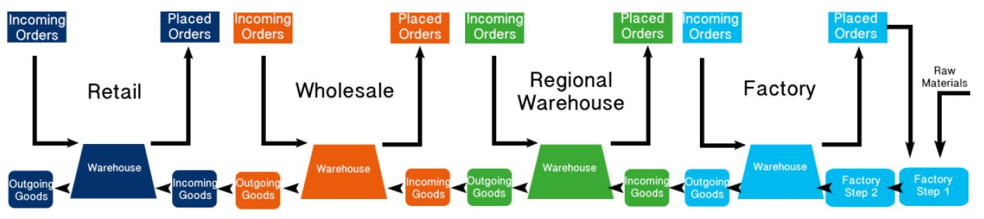 Example of a Board Design for the Beer Distribution Game